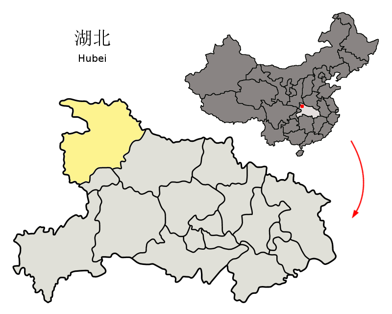 Location of Shiyan Prefecture (yellow) within Hubei Province of China Map drawn in december 2007 using various sources, mainly : Hubei Province administrative regions GIS data: 1:1M, County level, 1990 Hubei Counties map from